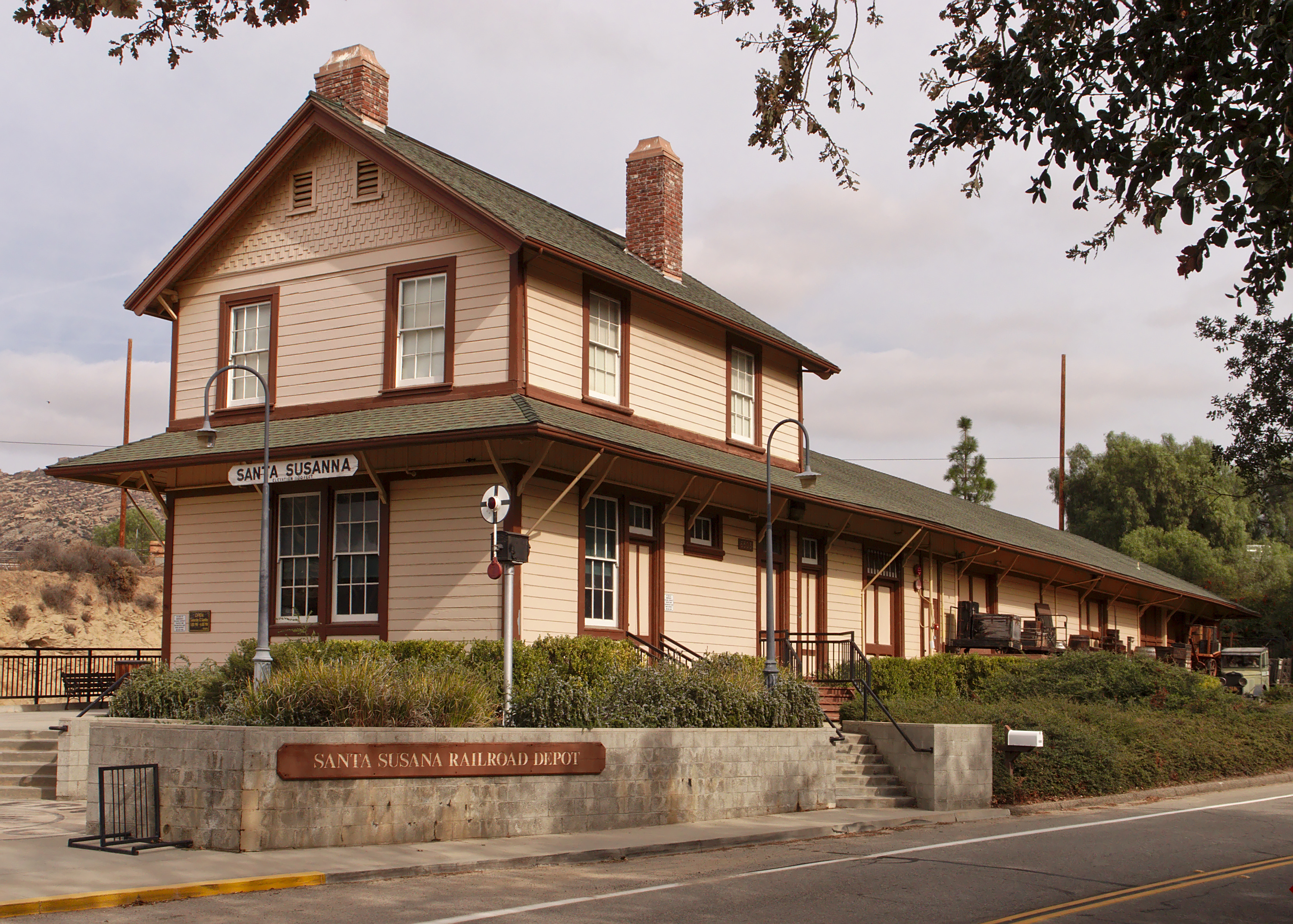 Santa Susana Depot viewed from the southwest.